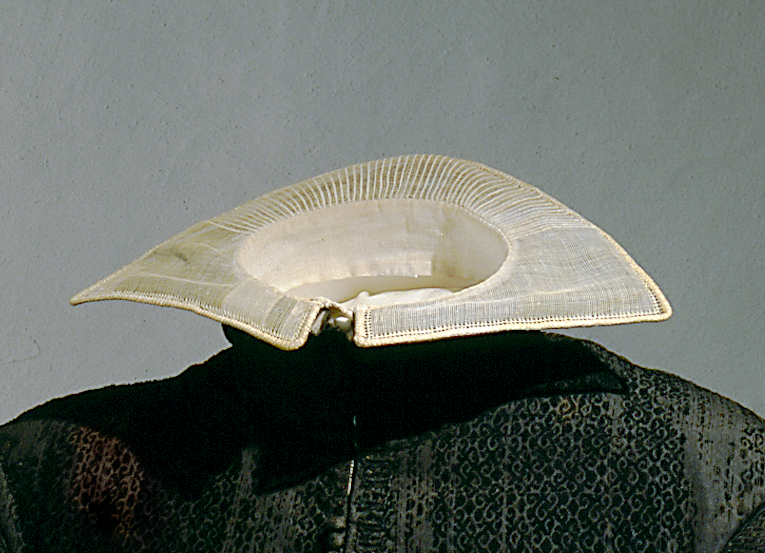 Spanish court costume of Nils Brahe - detail of SKO11874 - "golilla", a shaped linen collar with hemstitched edging worn over a black fabric-covered stiffened support.